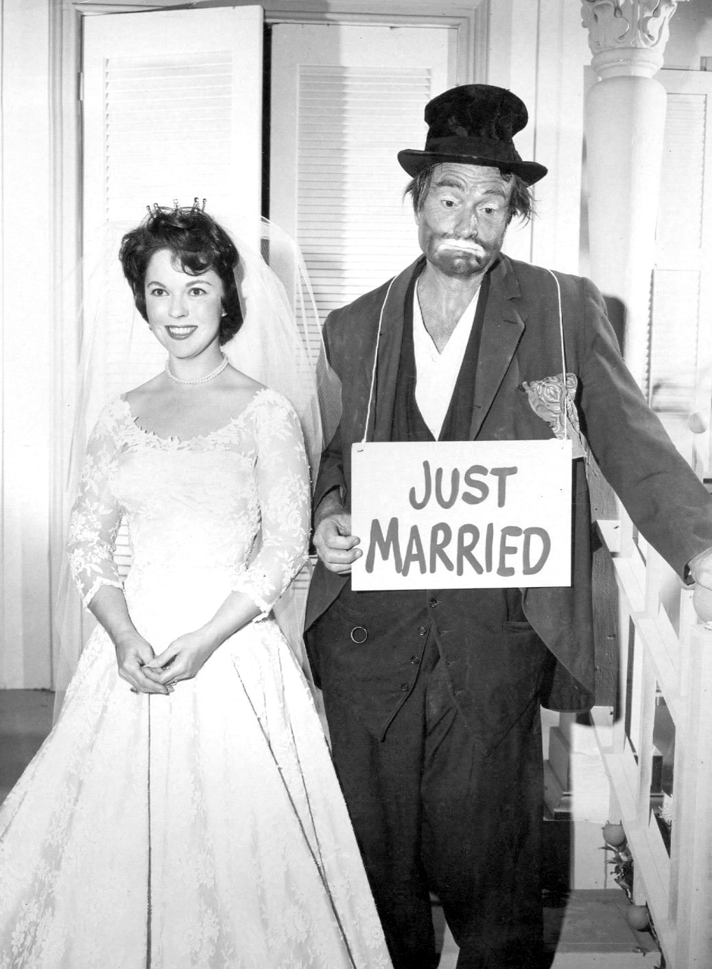 Photo of Shirley Temple and Red Skelton as Freddie the Freeloader from The Red Skelton Show.